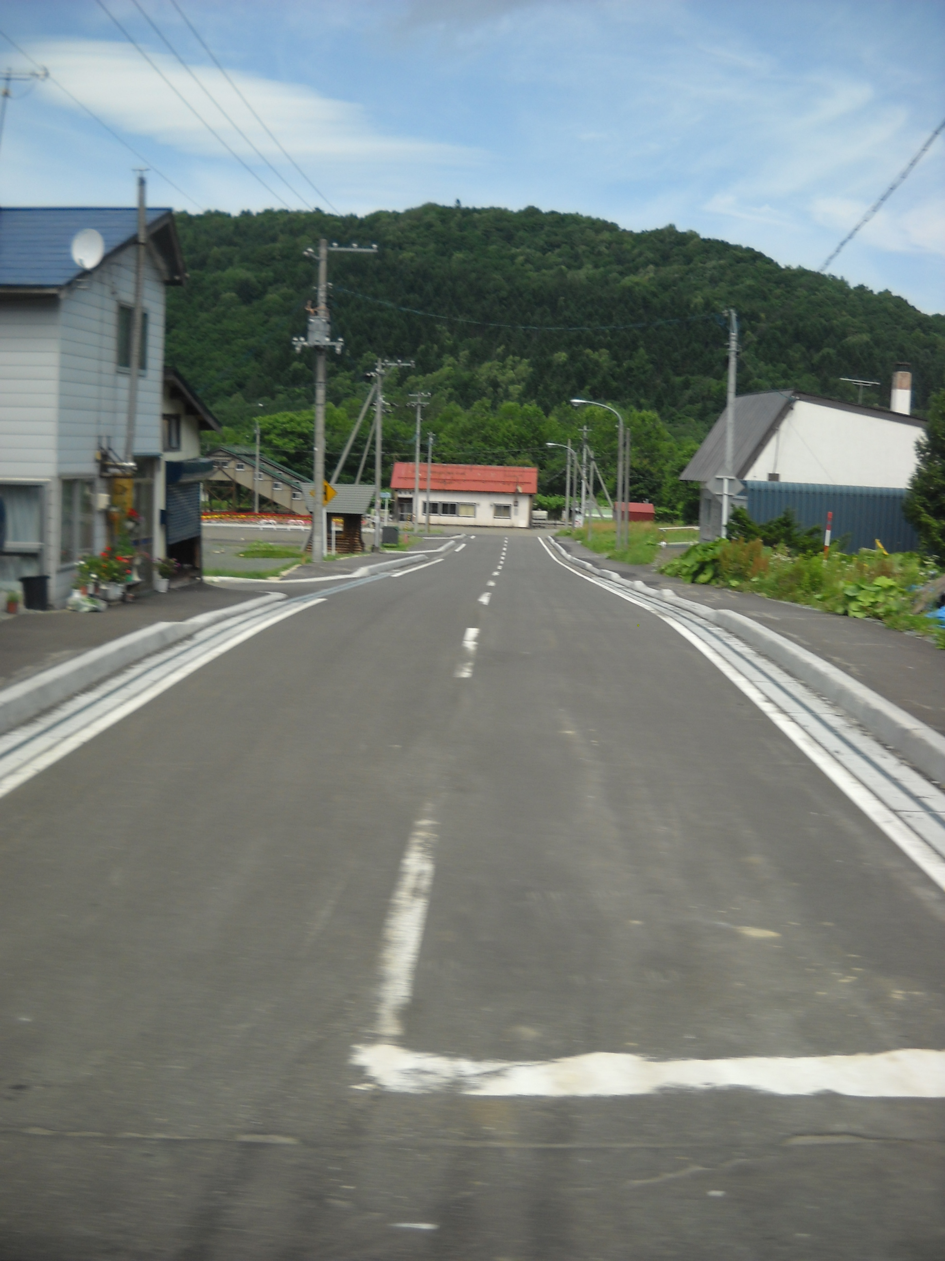 Hokkaido prefectural road route1117, Minami-Furano, Hokkaido, Japan